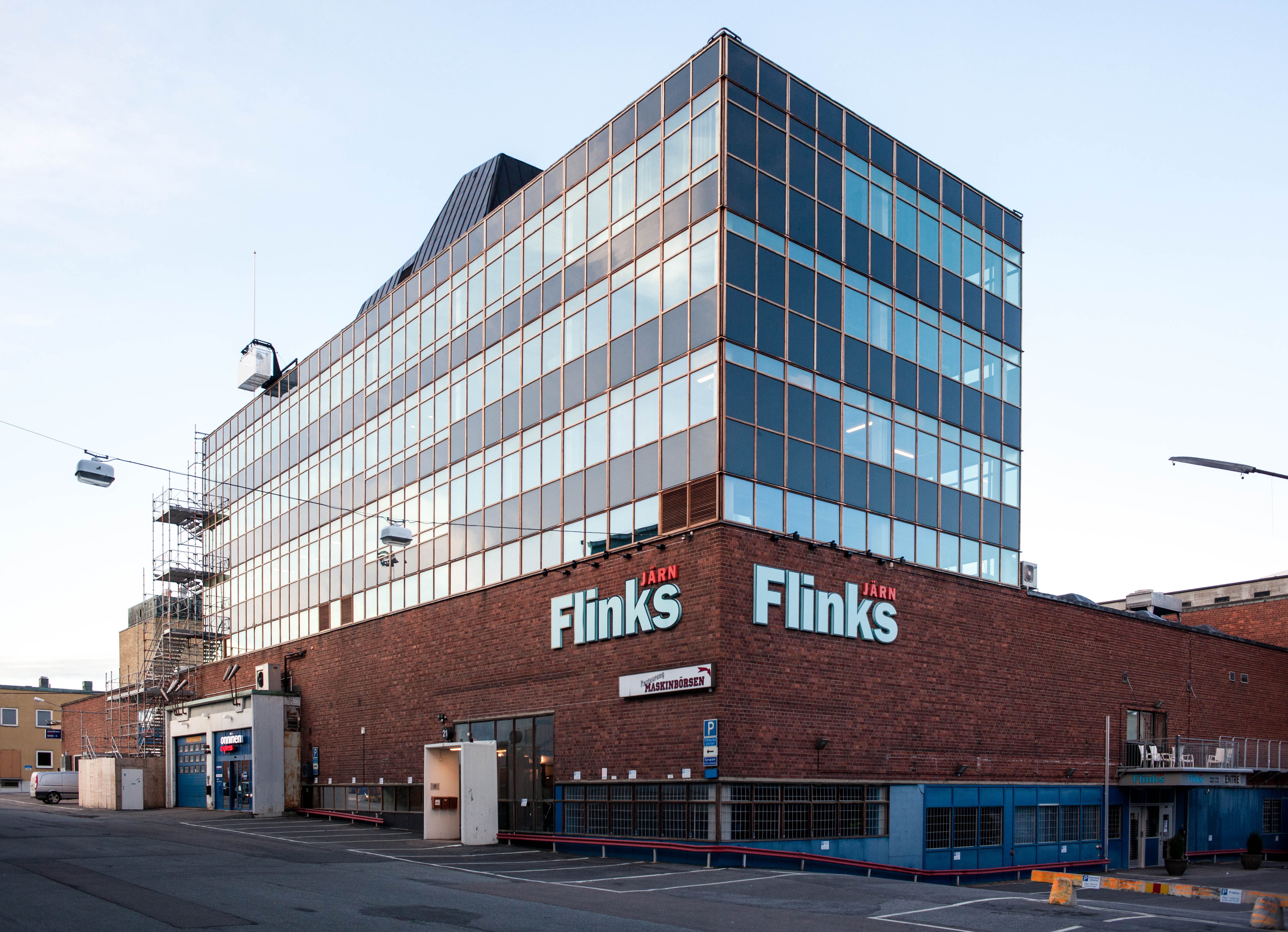 Charkuteristen 5. Architect: Ralph Erskine, 1955.